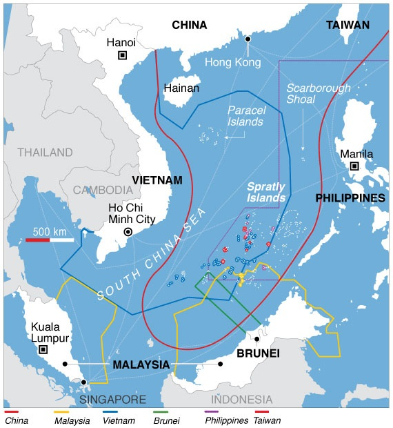 South China Sea claims map by Voice of America